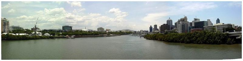 The Brisbane River in Brisbane, Queensland, Australia